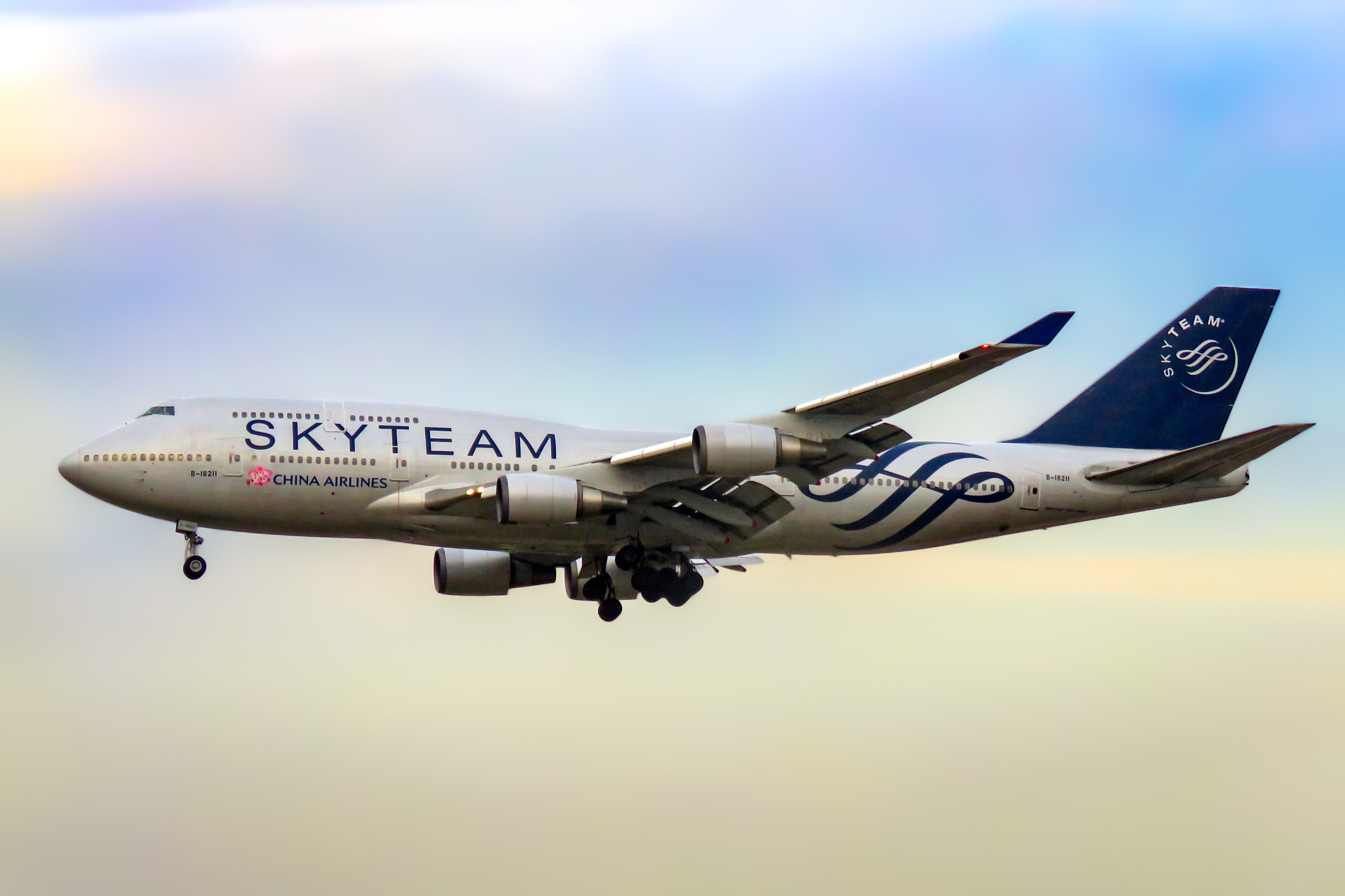 Dynasty 517 from Taipei. Summer evening, 517, SkyTeam...